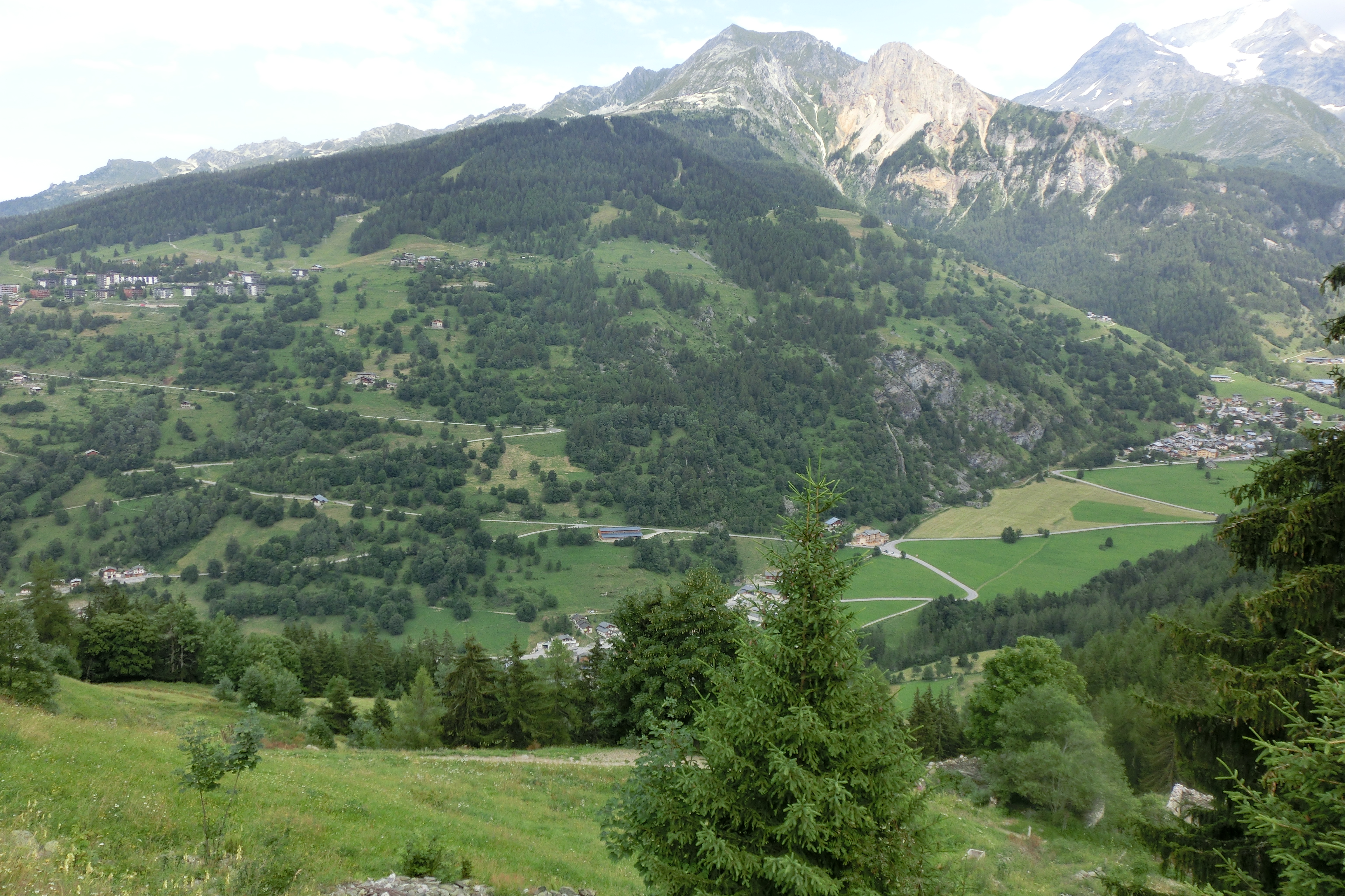 Peisey-Nancroix, from the Esserts. Plan-Peisey and parts of Peisey on the left, Nancroix on the right